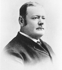 Senator Edward Douglass White, later Supreme Court justice and chief justice.